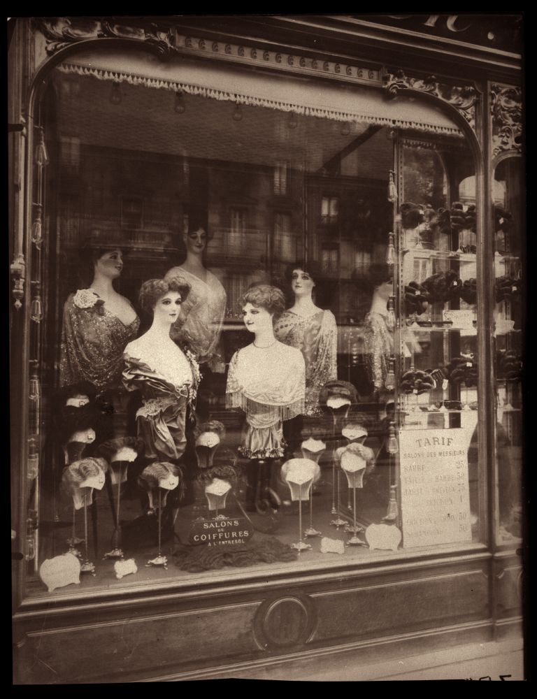 Digital Accession Number: 1976:0118:0028.0002 Maker: Eugène Atget (French, 1857-1927) Title: Coiffeur, Bd. de Strasbourg Date: 1912 Medium: silver printing-out paper print Dimensions: 22.7 x 17.6 cm. (trimmed) George Eastman House Collection